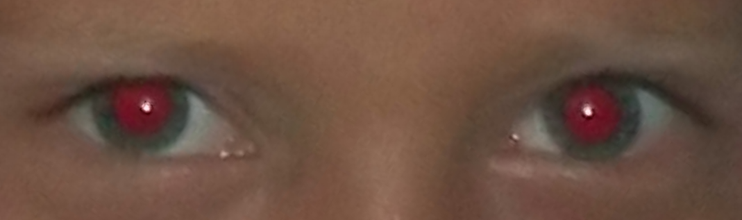 Red-eye effect